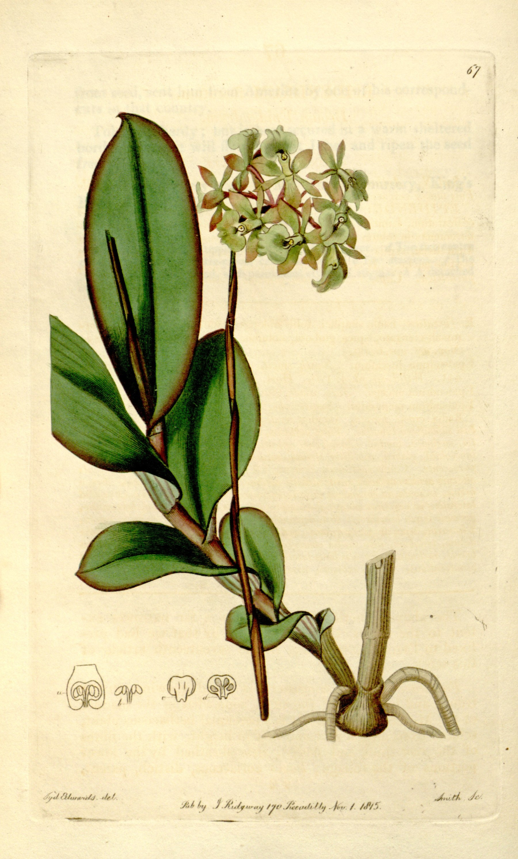 Illustration of Epidendrum anceps (as E. fuscatum)